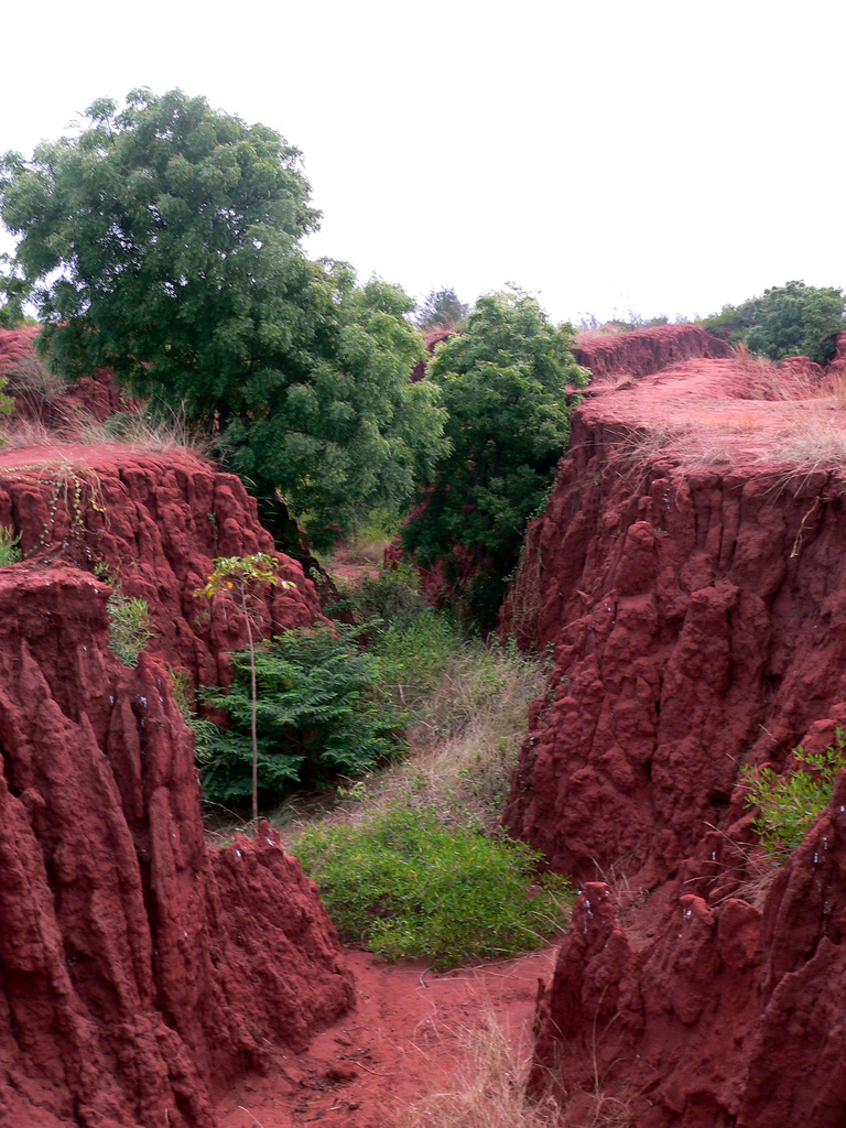 Red soil ("sivanthaman") near the village of Muttom, Kanyakumari district, Tamil Nadu, India. Red earth is characteristic of the Tamil-speaking region of South Asia.